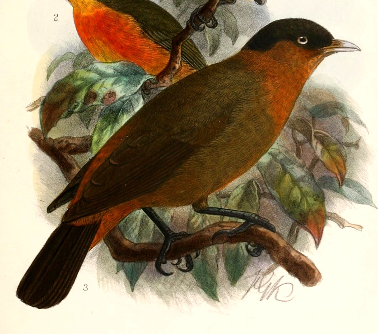 « Lioptilus rufocinctus » = Kupeornis rufocinctus (Red-collared babbler)